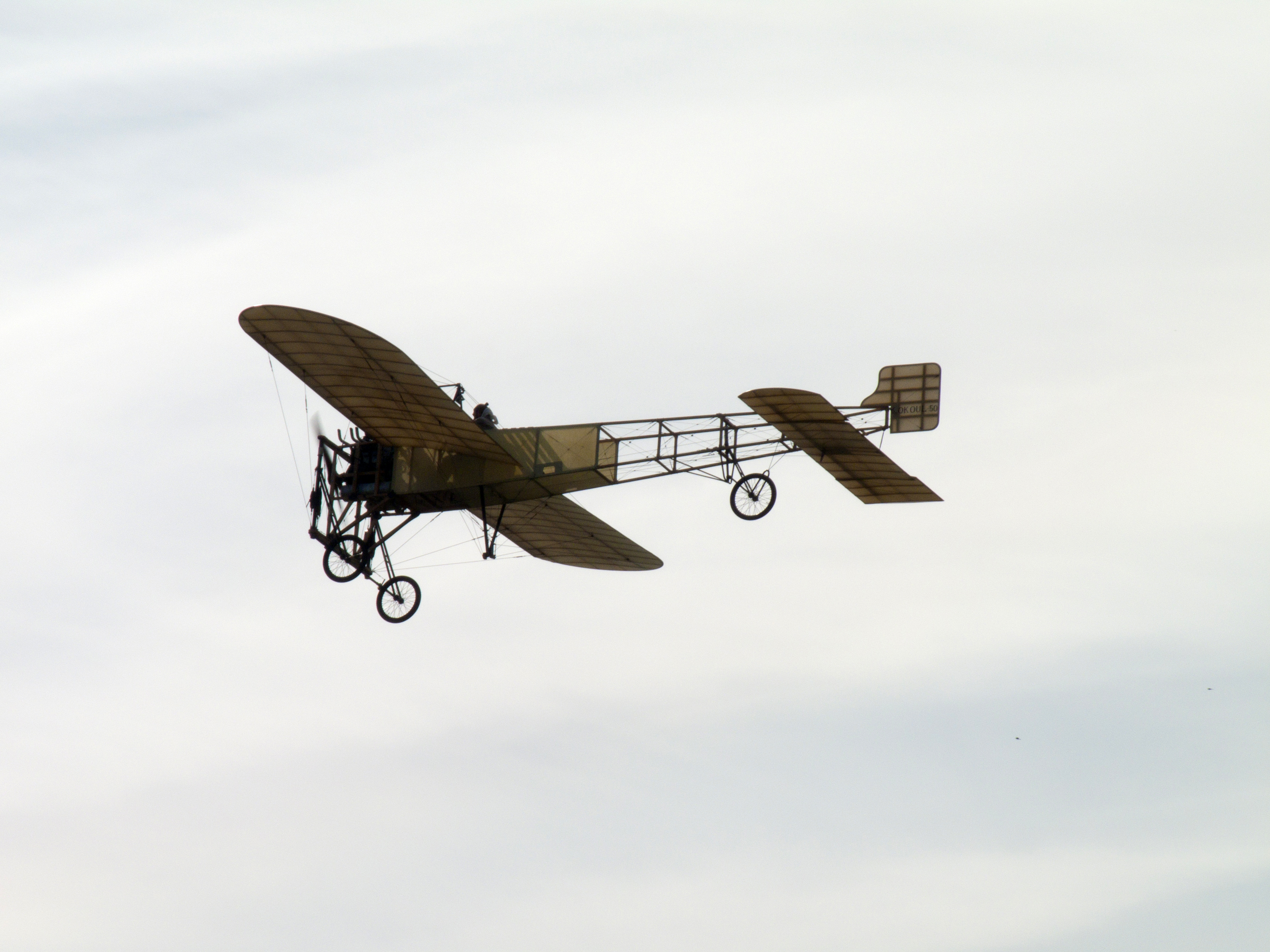 Blériot XI replica at České Budějovice Airport, Czech Republic during a flight commemorating 100 years since Jan Kašpar's flight from Č.Budějovice on 9 October 1910